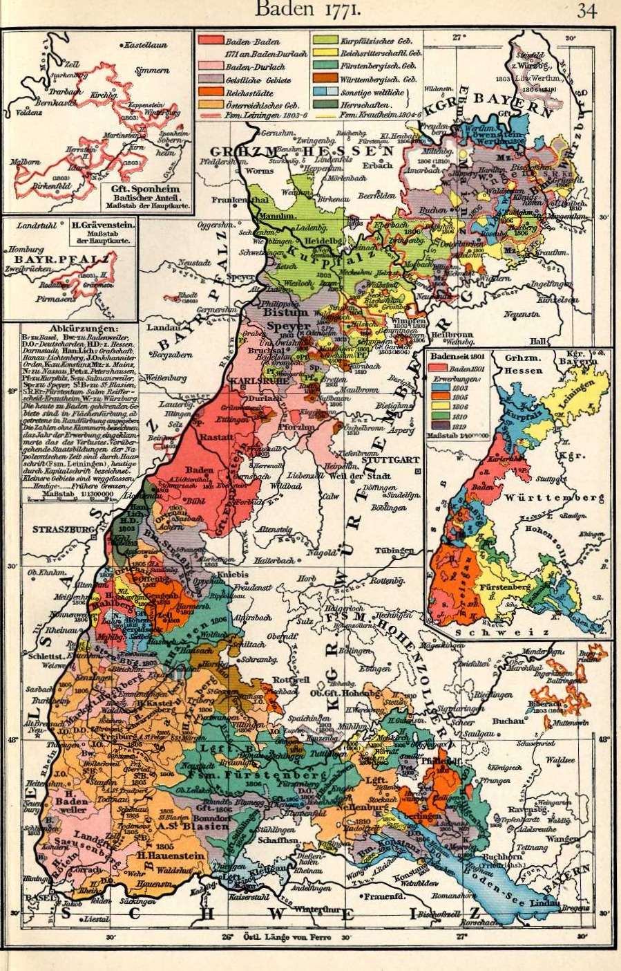 Territorrial situation in the lands subsequently annexed by Baden, 1789